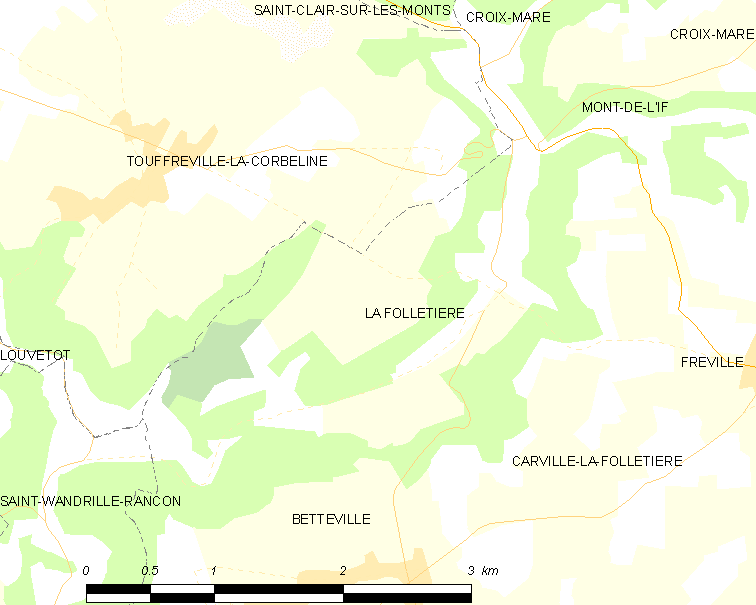 Map of French municipality La Folletière